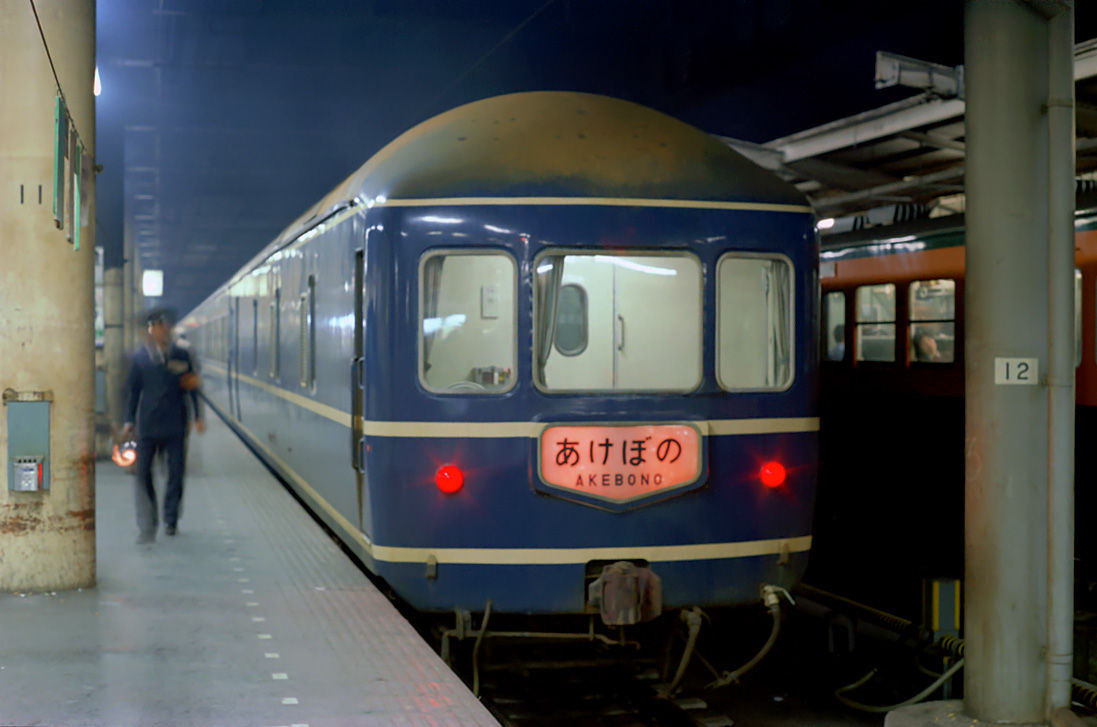 A Japanese National Railways 20 series generator van at the rear of an Akebono limited express sleeping car service at Ueno Station in Tokyo